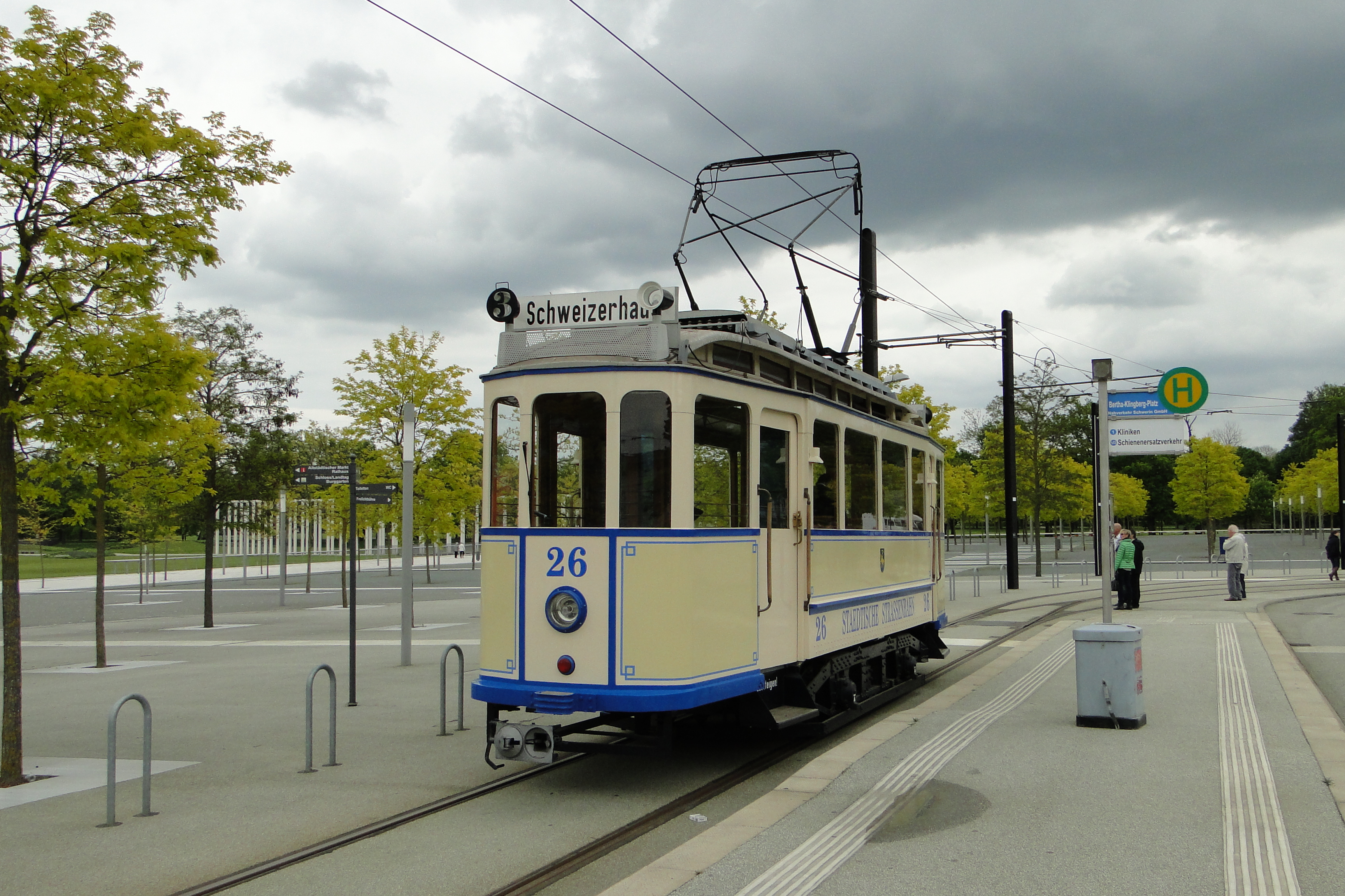 Historical tram on the Bertha-Klingberg-Platz in Schwerin, Mecklenburg-Vorpommern, Germany